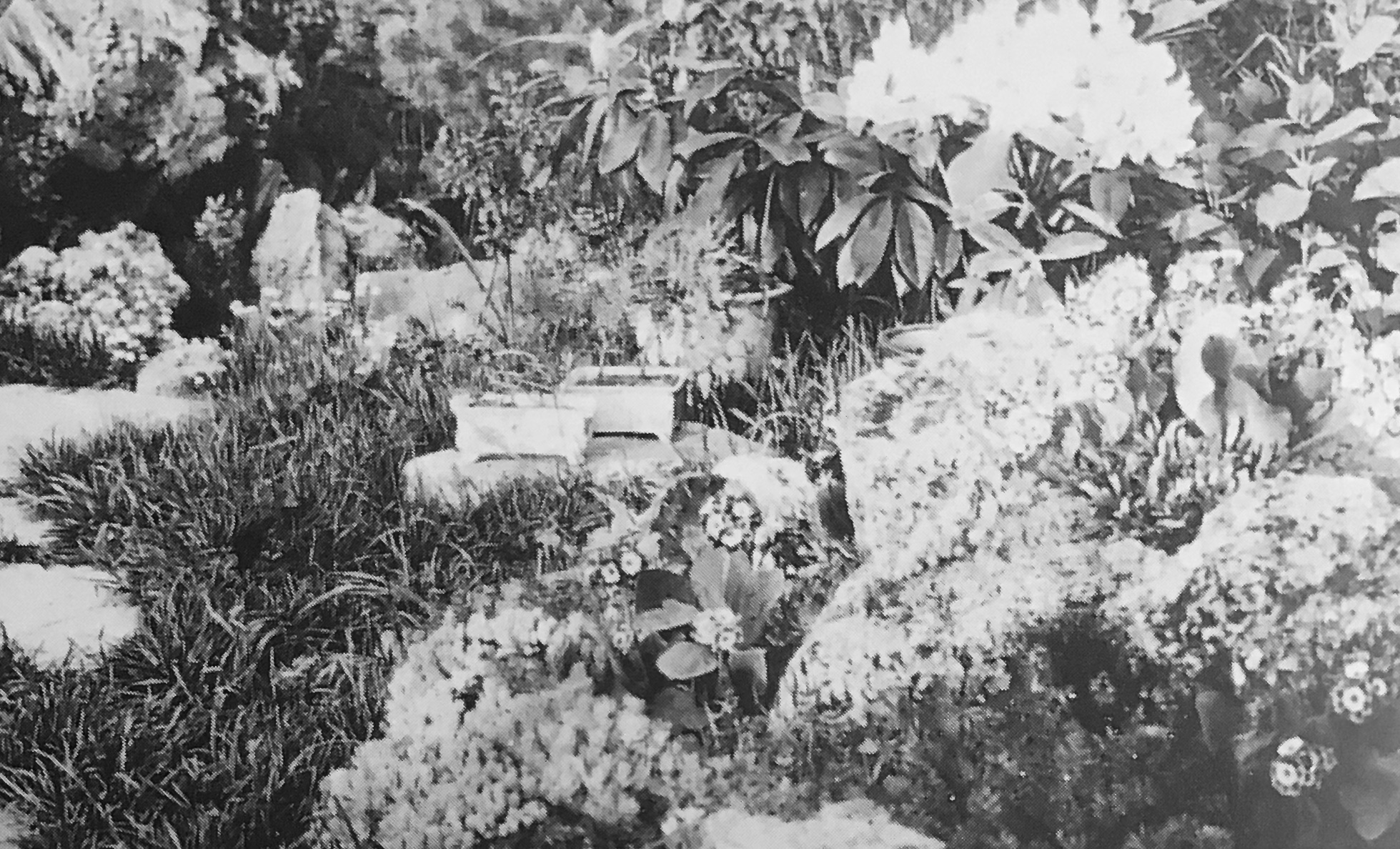 Weinbrenners Garten